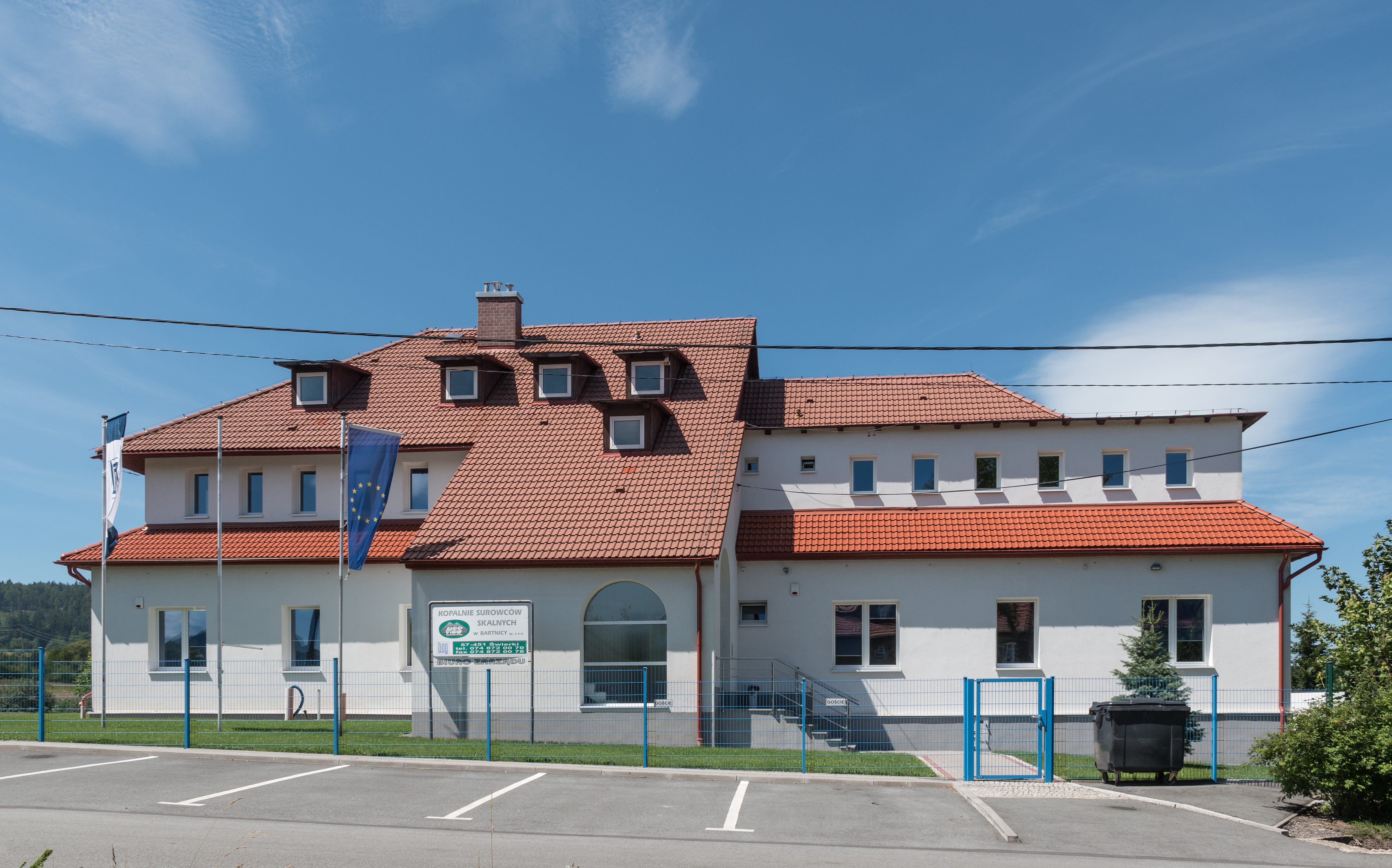 Mines in Bartnica